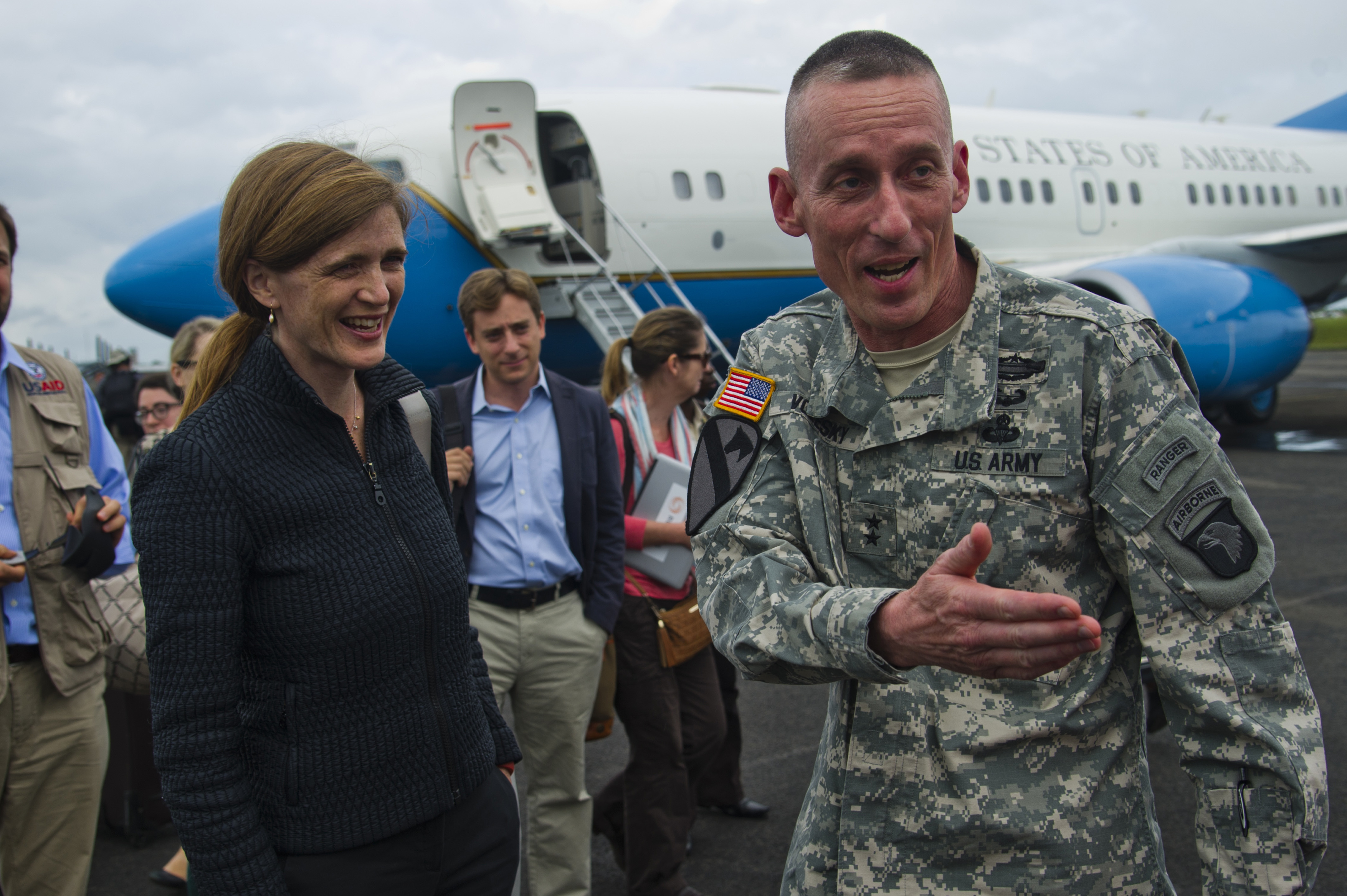 Samantha Power, the U.S. ambassador to the U.N., is greeted by Maj. Gen. Gary Volesky, Joint Forces Command commander, after arriving here during Operation United Assistance Oct. 28, 2014. Powers is currently touring the three most affected countries by the Ebola virus in Africa to show U.S. support. The mission of the JFC-UA is to support the lead federal agency, the U.S. Agency for International Development, response to the Ebola virus outbreak in Liberia by building Ebola treatment units, training healthcare workers and providing logistical support. (U.S. Air Force photo by Staff Sgt. Gustavo Gonzalez/Released)